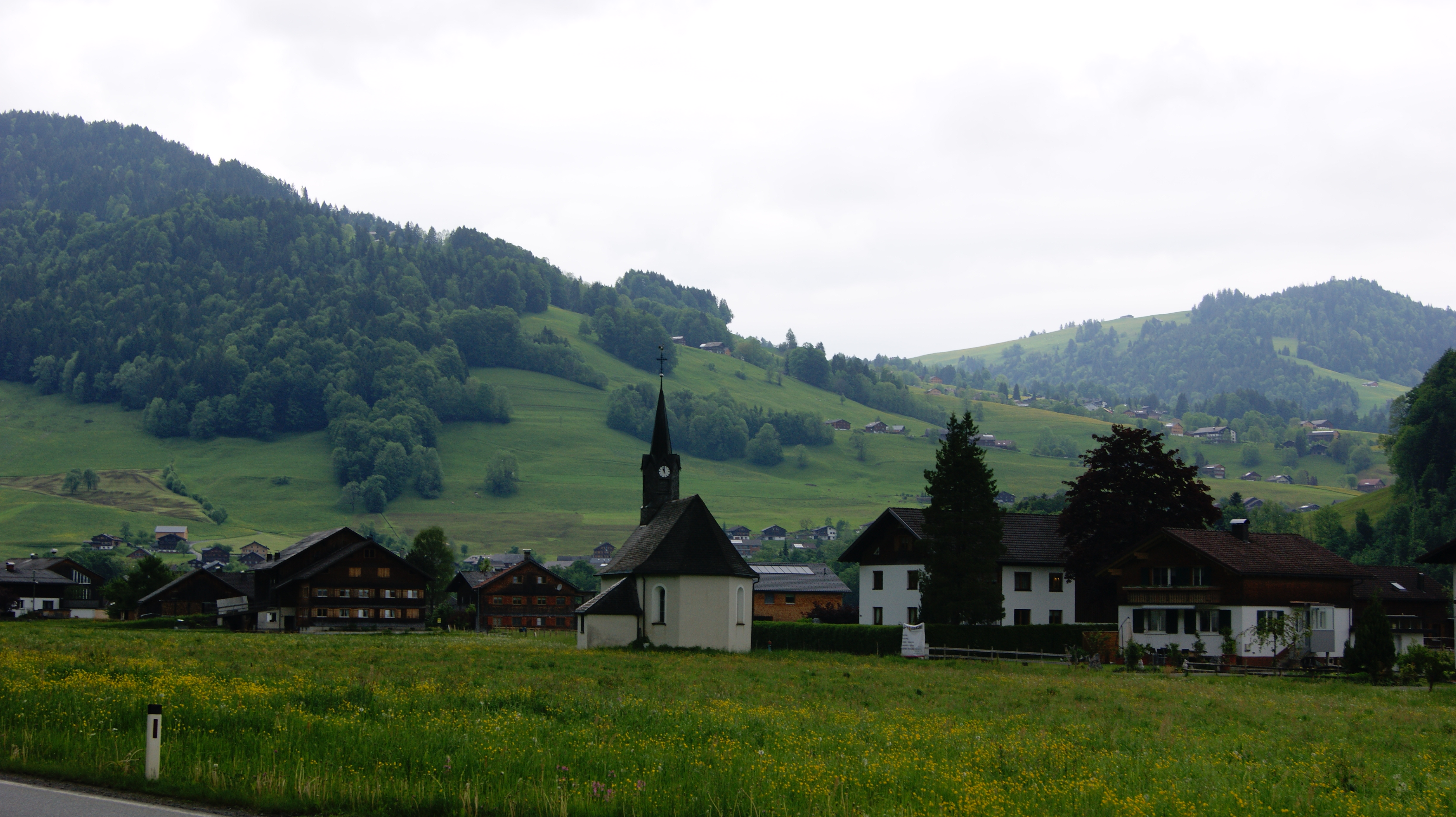 Chapel St. Martin and Wendelin, Bersbuch, community Andelsbuch, Vorarlberg, Austria. View from South-East.